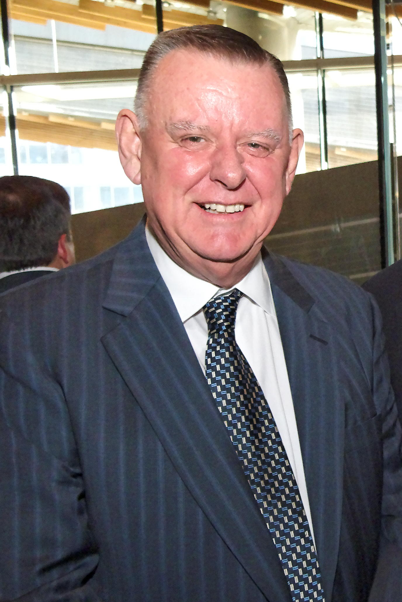 David Braley is the present co-owner of both the Toronto Argonauts CFL franchise, which he purchased in February 2010, and the BC Lions CFL Football club which he acquired in January 1997. He is also the owner of Orlick Industries Limited, a successful auto-parts manufacturing company based in the city of Hamilton, Ontario. On May 20, 2010, Braley was appointed to the Canadian senate by the Canadian government for a 5 year term where he will sit as a Conservative. He presently lives in the city of Burlington in the province of Ontario. Braley was originally born in the city of Montreal, Quebec, but was raised in Hamilton, Ontario and attended McMaster University there. David Braley is pictured here at the 7th Annual Orange Helmet Awards Dinner celebrating grassroots football in the province of British Columbia, Canada, at the Vancouver Convention Centre in April 2010. This photo was taken by Raj Taneja of the Urban Mixer blog site.